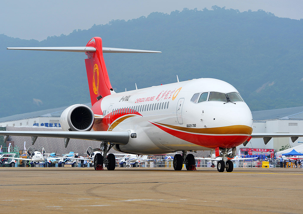 Chengdu Airlines COMAC ARJ21-700 at 2014 Zhuhai Air Show